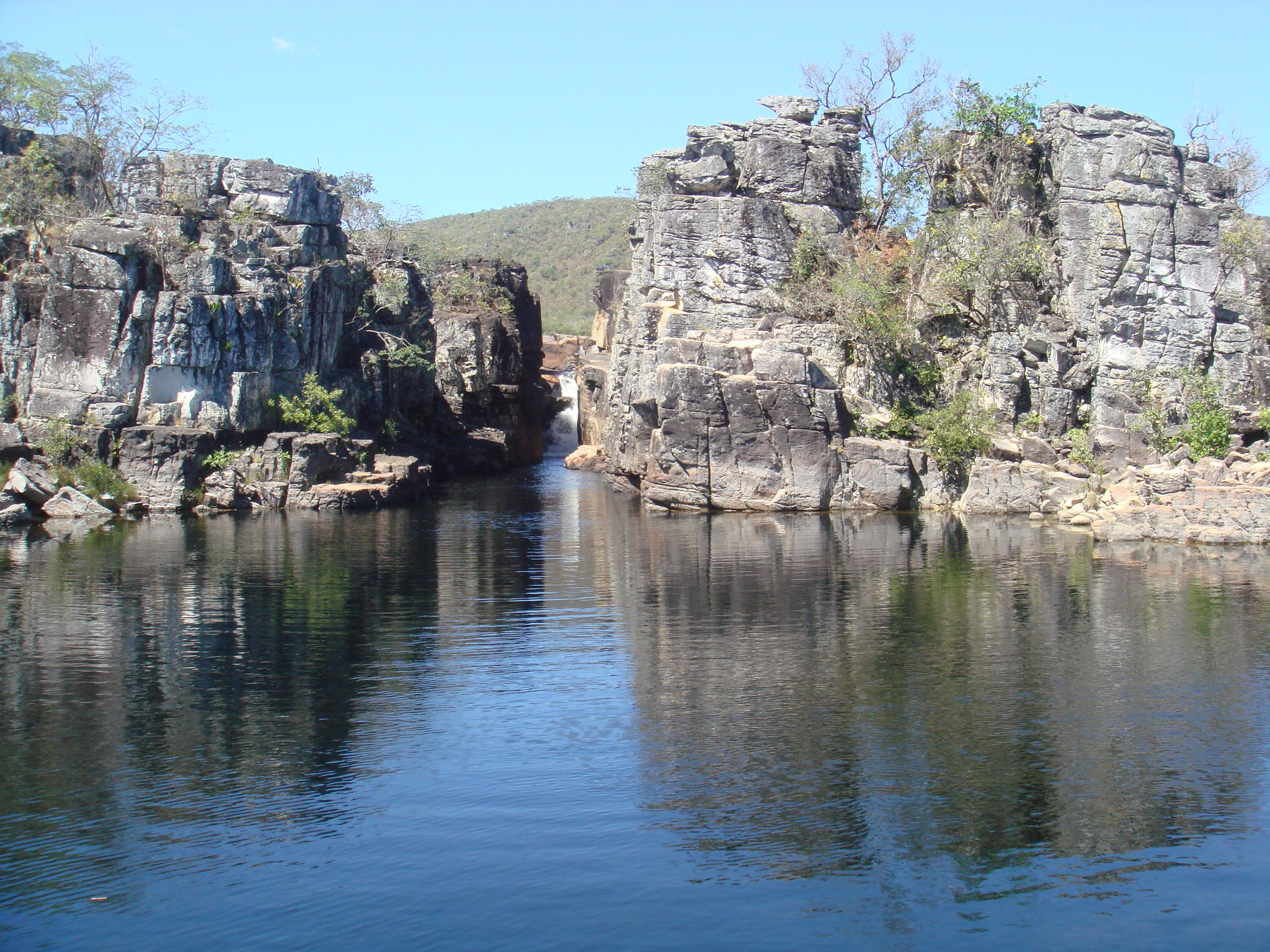 Little canyon created by water in Chapada dos Veadeiros (Cerrado vegetation) in São Jorge, Goias, Brazil